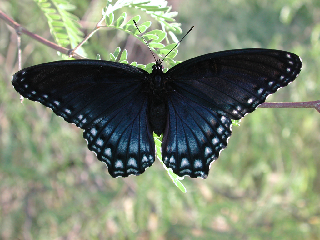 Limenitis arthemis arizonensis, Arizona Red Spotted Purple. Reared from larva on Salix gooddingii from along Sycamore Creek, Maricopa County, Arizona, USA.